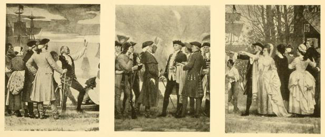 Mural: The Burning of the "Peggy Stewart" (1905), by Charles Yardley Turner (panels #1, #3 & #5), Clarence M. Mitchell, Jr. Courthouse, Baltimore, Maryland.